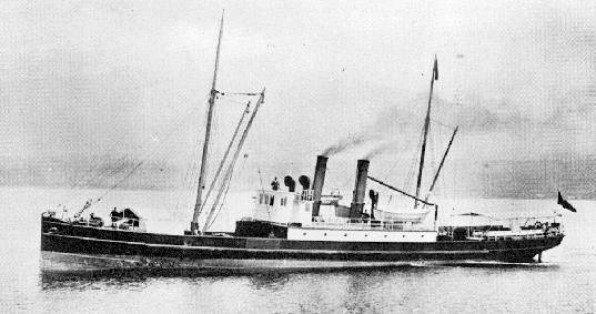 Steamship Cutch, in Canadian service, sometime before 1900, and probably before 1898, when vessel was reconstructed and additional cabins added.